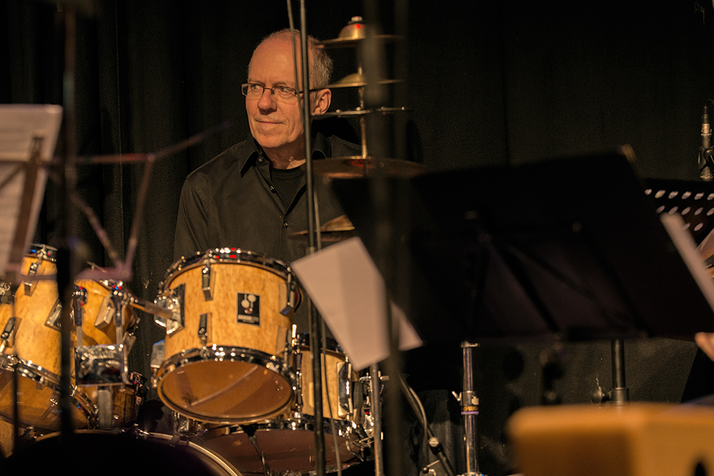 Christoph Haberer, Jazzmusician, drummer